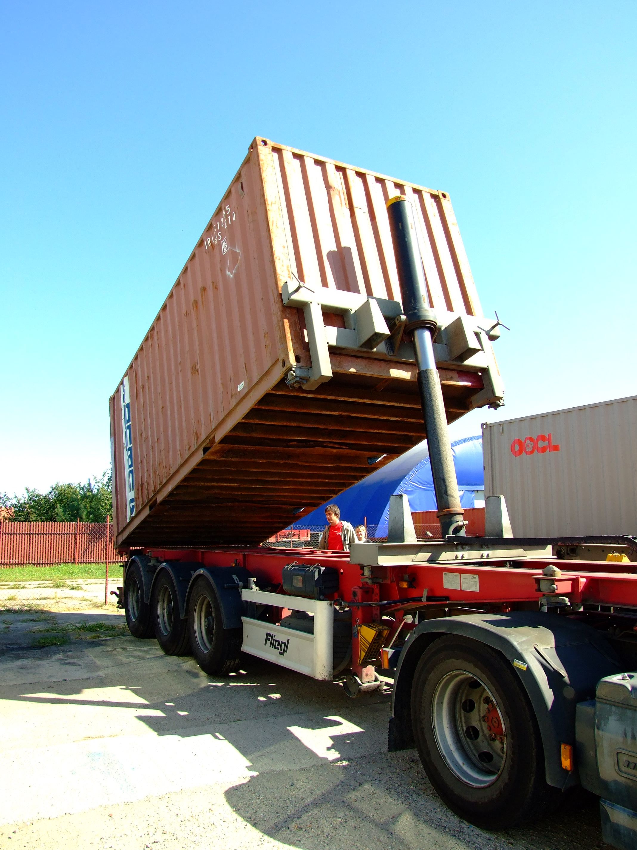 ČSAD Mělník/ČSAD Střední Čechy bus exhibition in Mělní bus garages, Central Bohemian Region, CZhelp